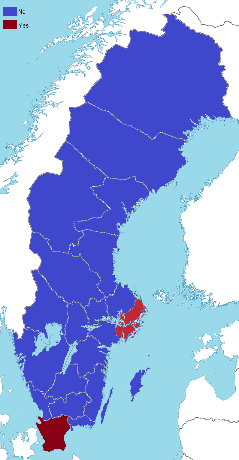 Swedish euro referendum results by county 2003